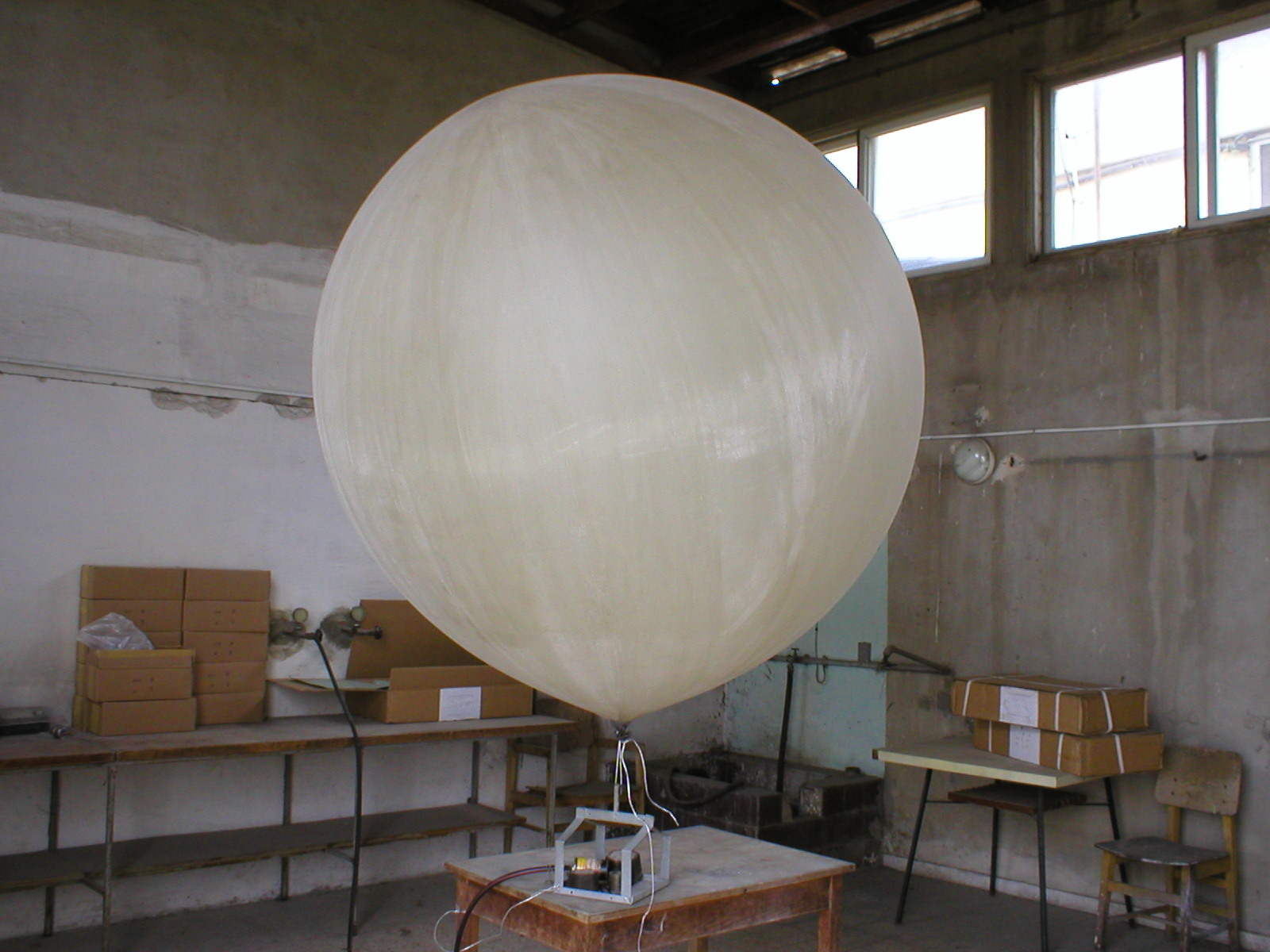 Meteorological balloon